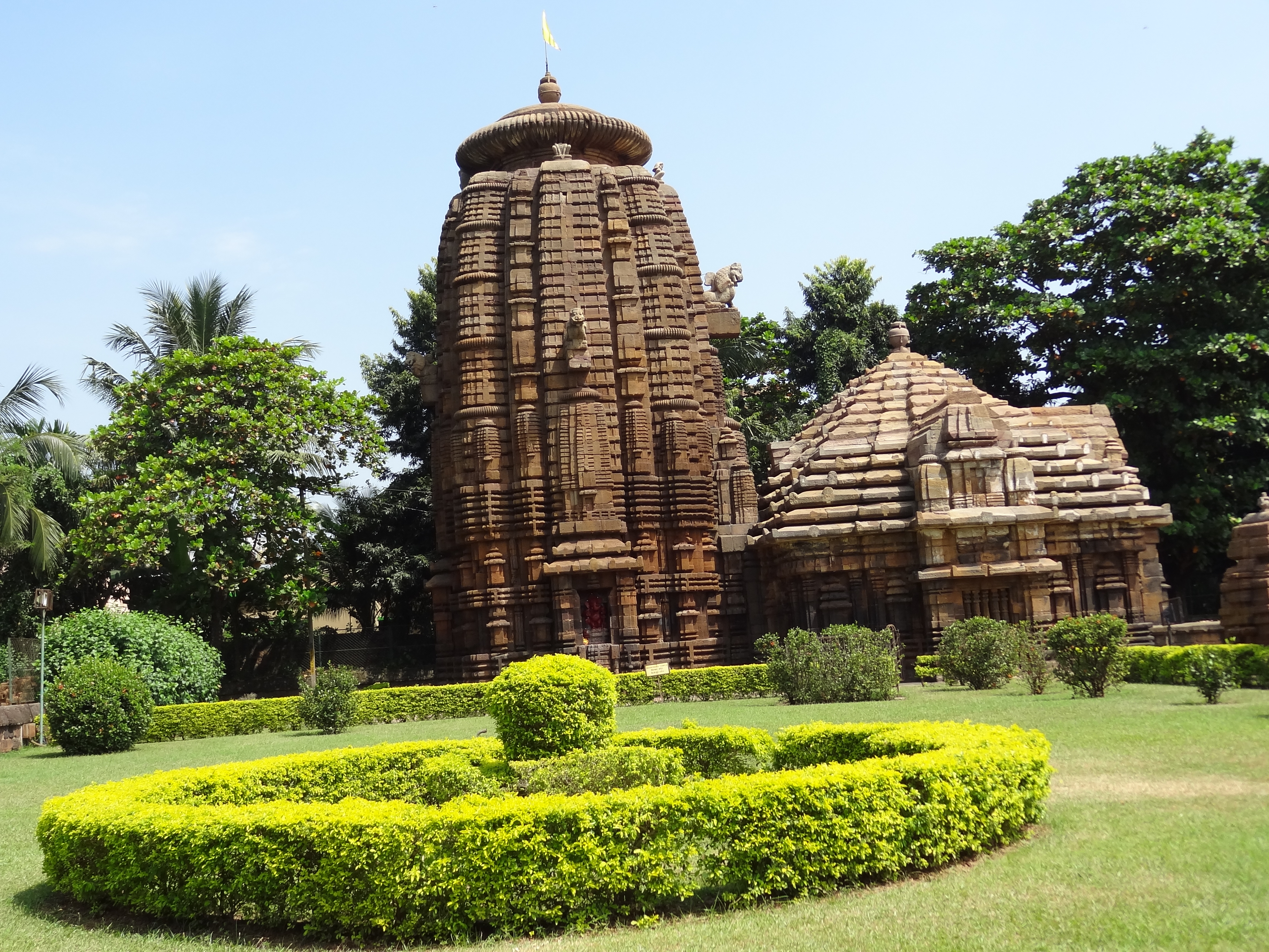 Mukteshwar Temple, Bhubaneswar